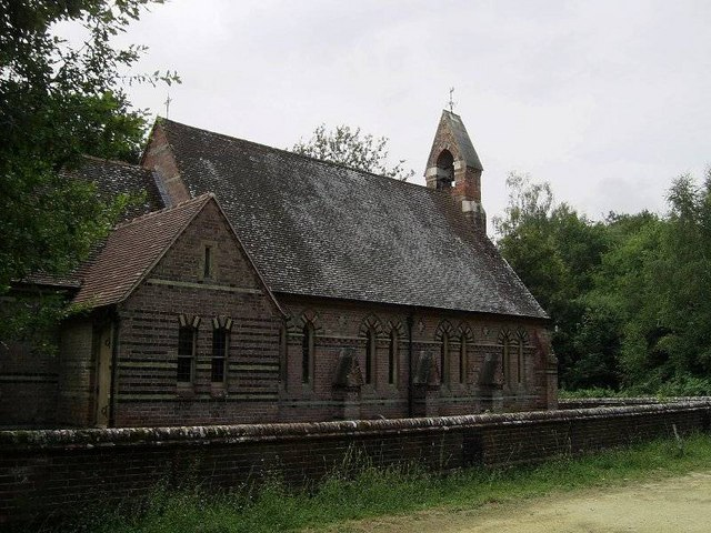 Holy Trinity parish church, Ebernoe, West Sussex, seen from the northeast